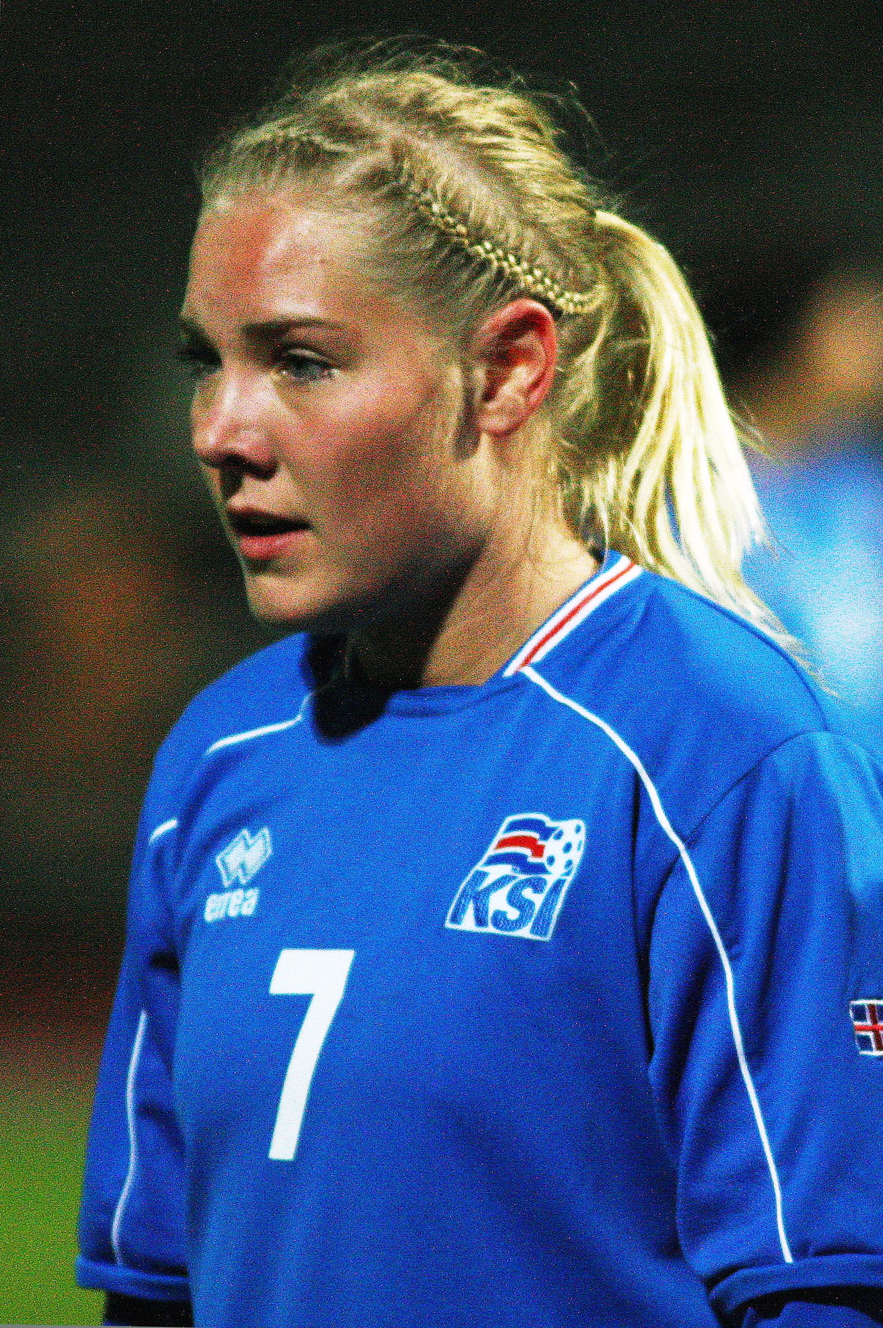 Iceland - Estonia/2011 FIFA Women's World Cup qualification UEFA Group 1